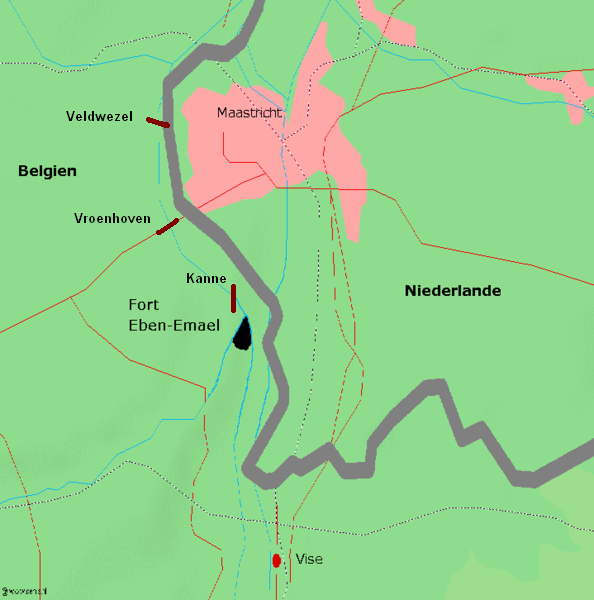 location of fort Eben-Emael and pridges derived from 594px-Eben-Emael.PNG